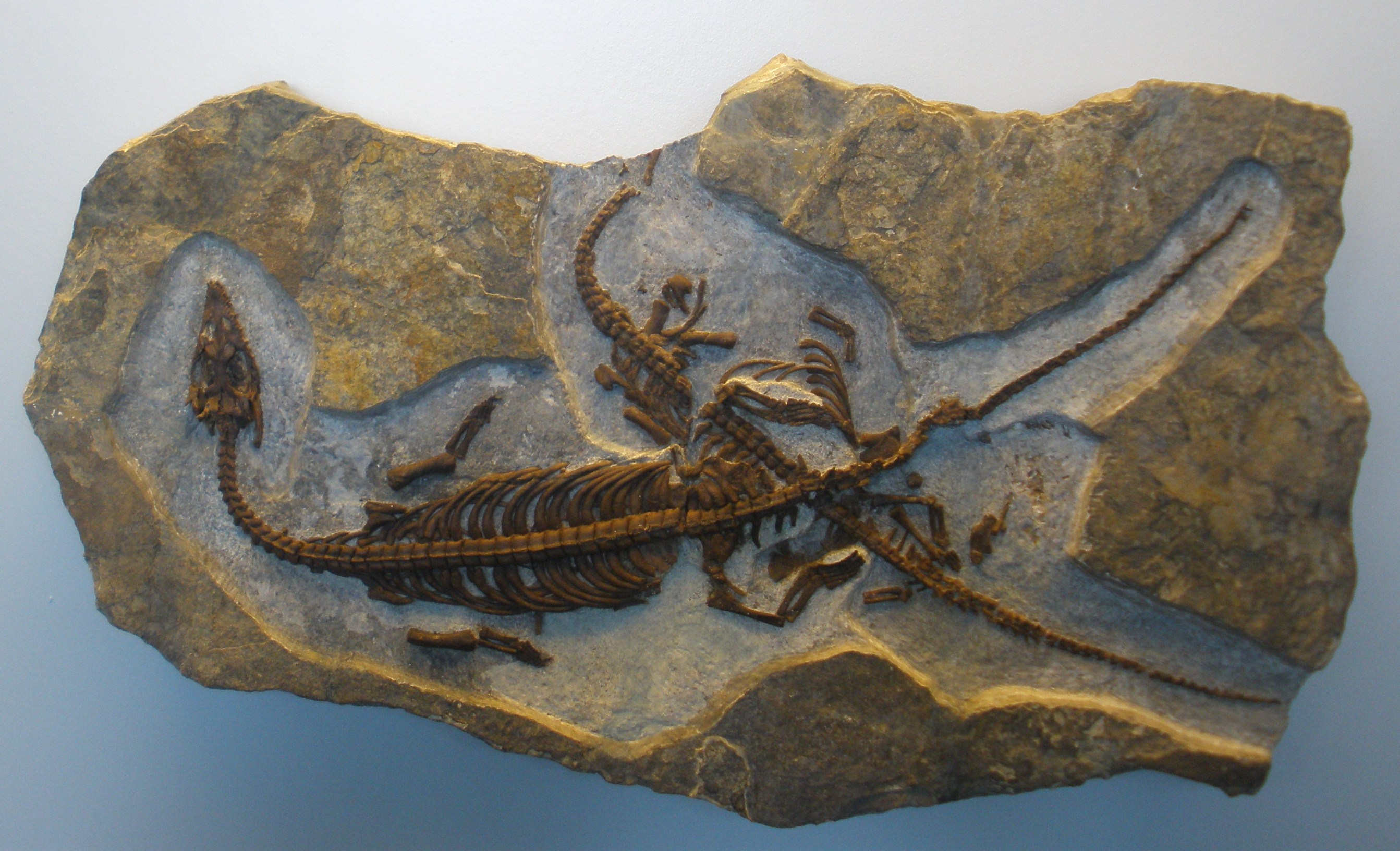 fossil serpianosaurus